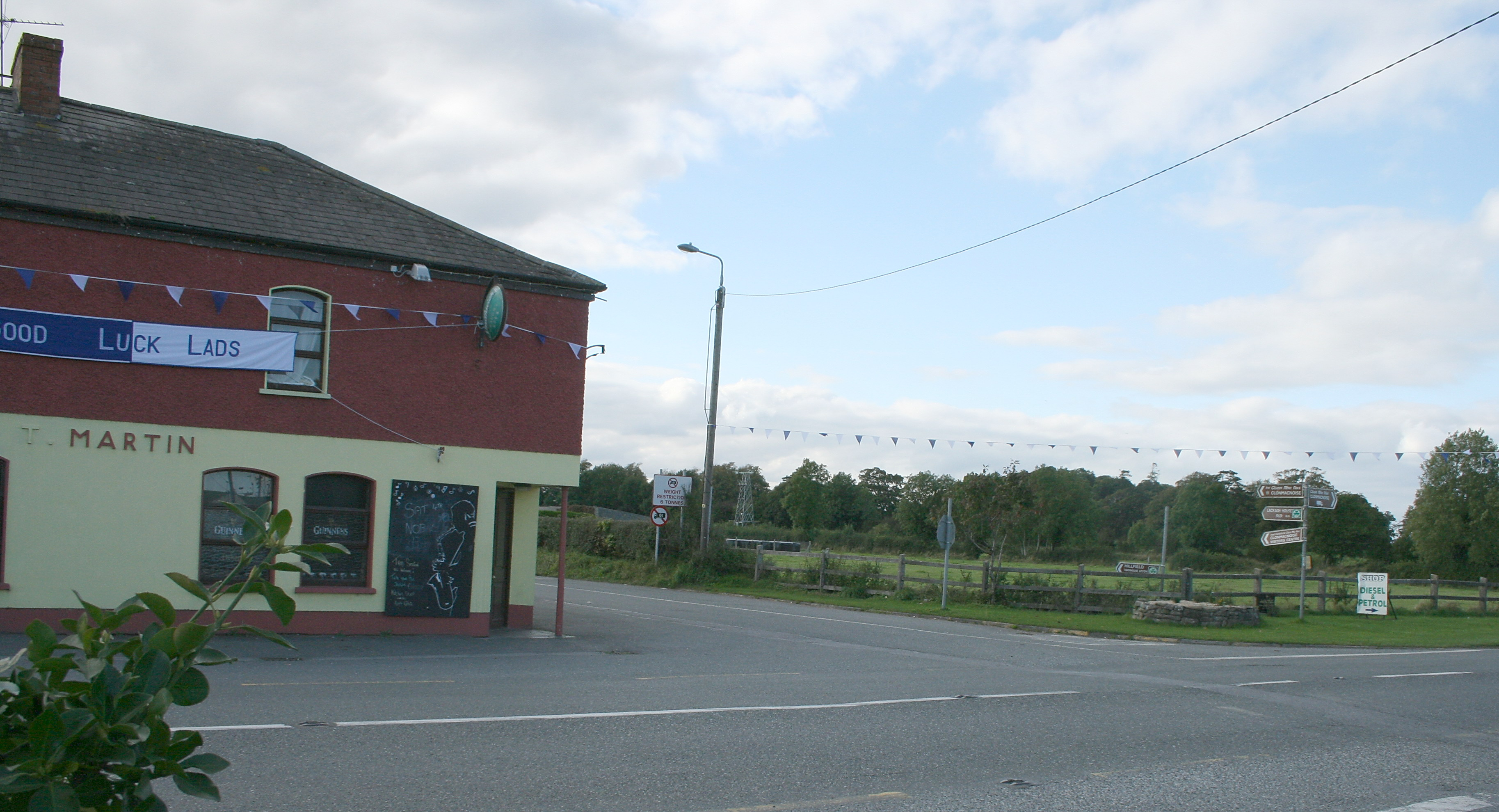 Doon, County Offaly, near to Doon Cross Road, Togher and Eskerbreague, Offaly, Ireland. The R444 crosses the N62 at Doon crossroads.